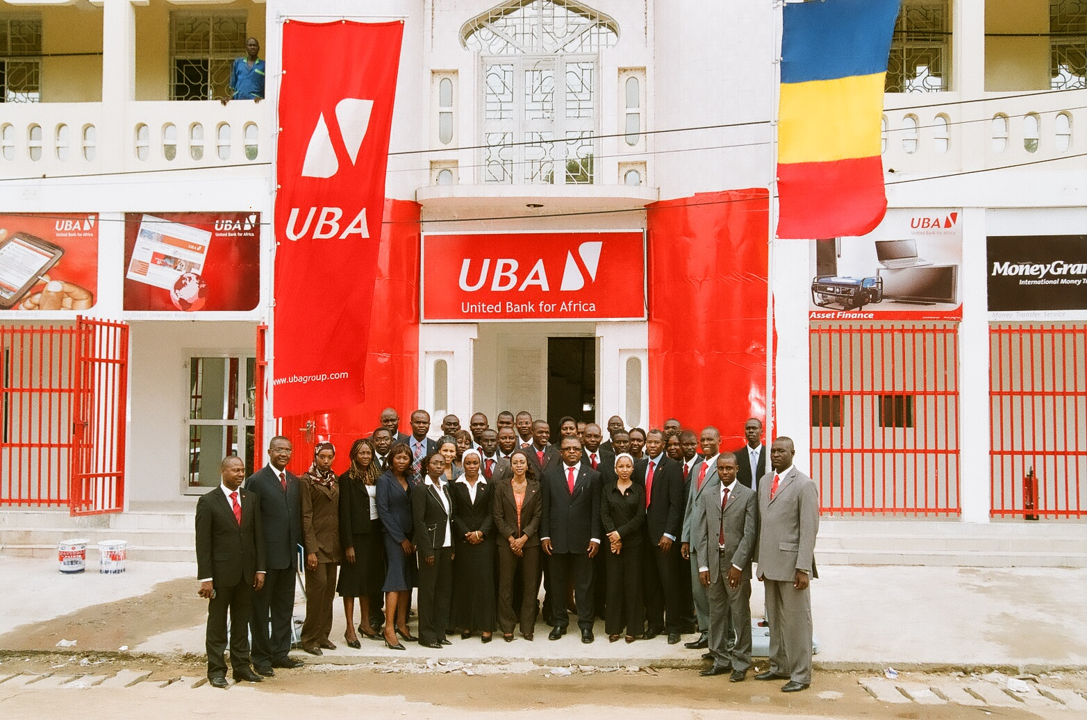 The UBA Tchad's Business Office along General Brahim Ali Street in N'djamena, Chad.